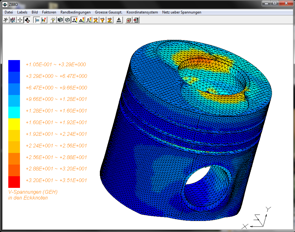 Programsnapshot Postprocessor Open Source Software Z88 V14